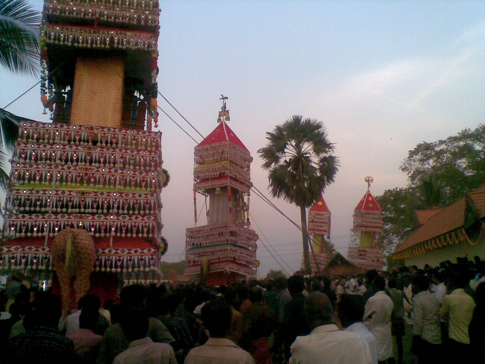 Eduppukuthiras(In Malayalam)-- Huge Chariots